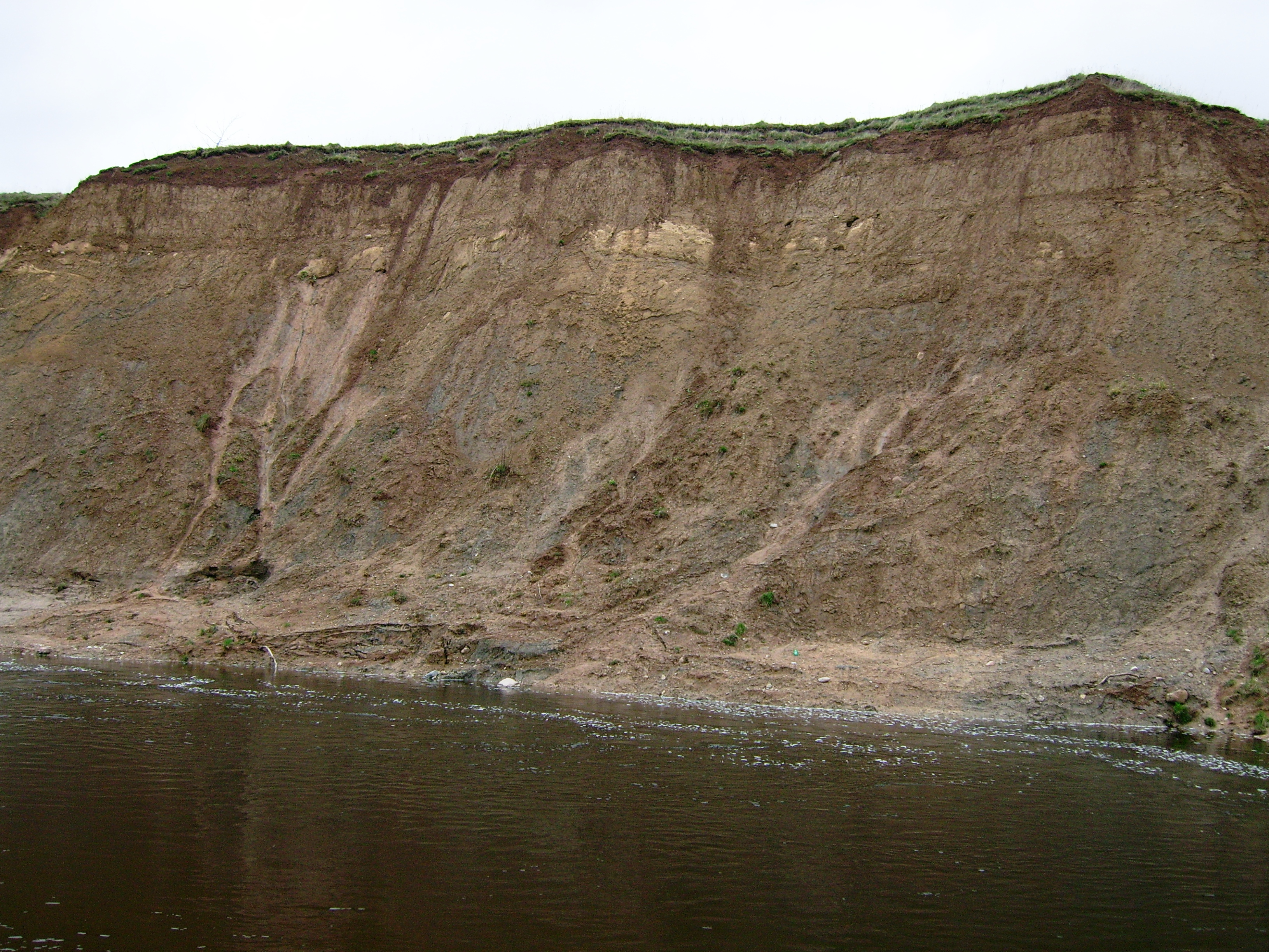 Outcrop in Rekstukai